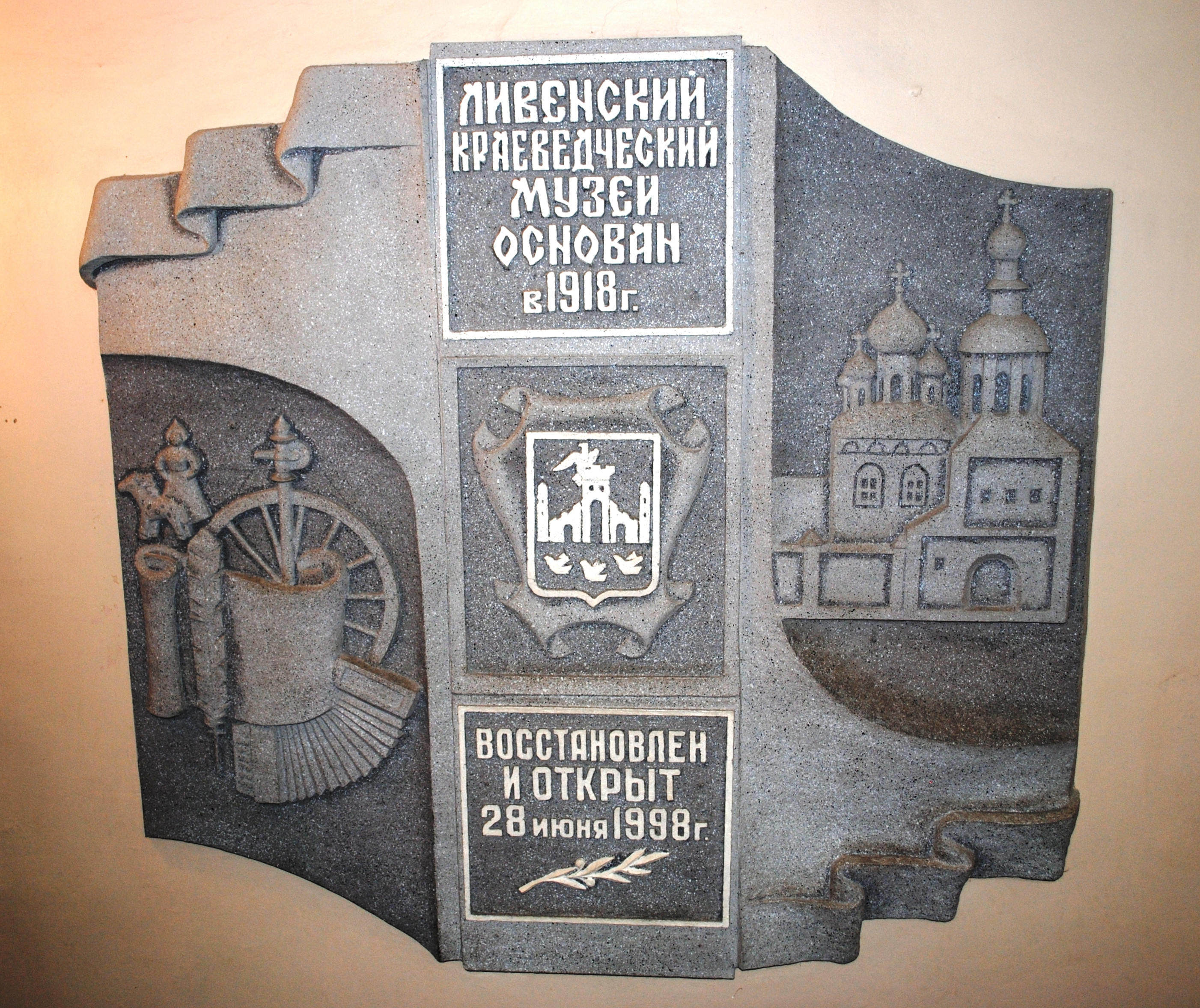 Barelef